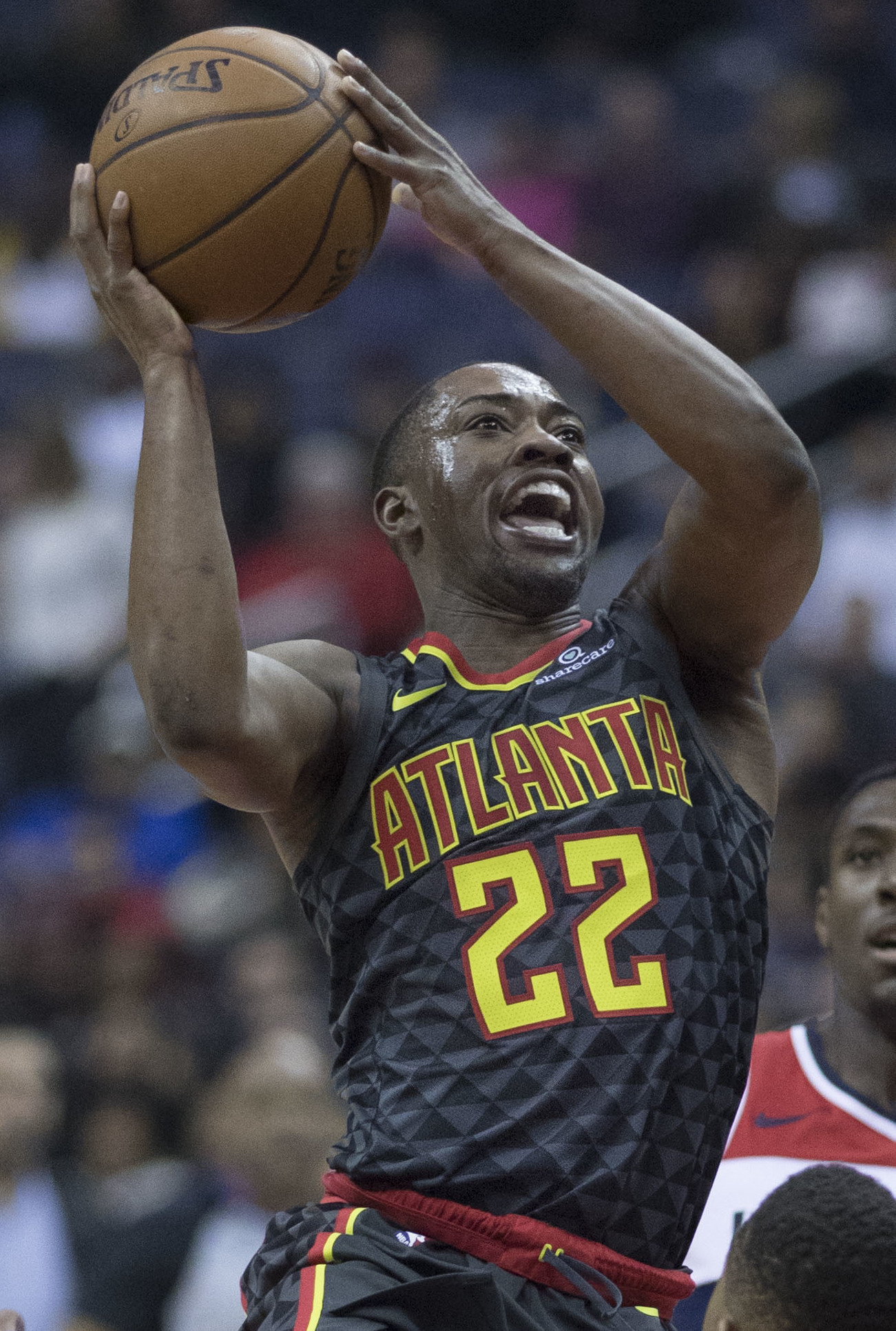 Isaiah Taylor of the Atlanta Hawks attempts a shot against the Washington Wizards during a 2017 game at Capital One Arena in Washington, D.C.